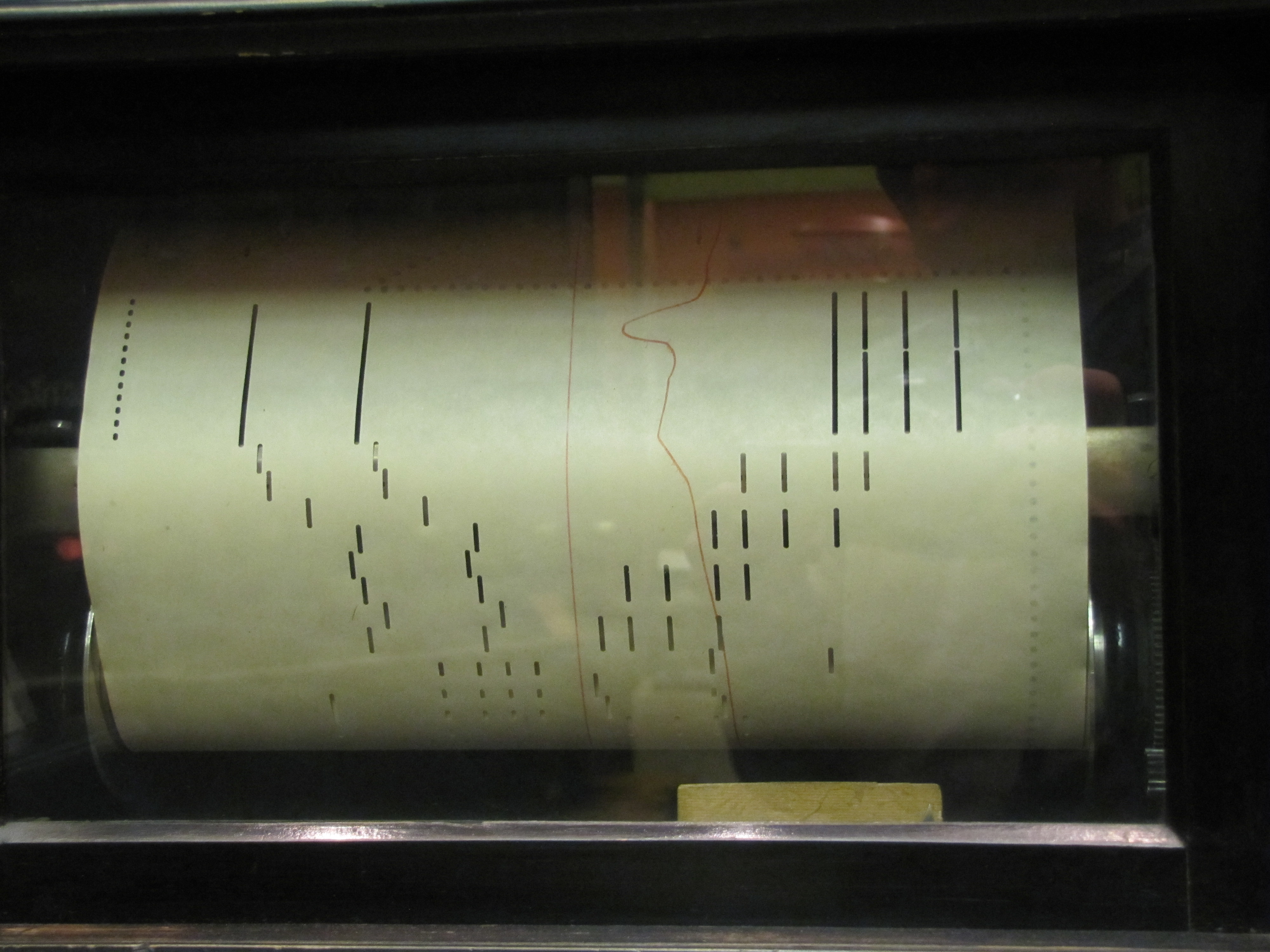 Perforated paper tape in pianola. Photo taken in Warsaw Museum of Technology